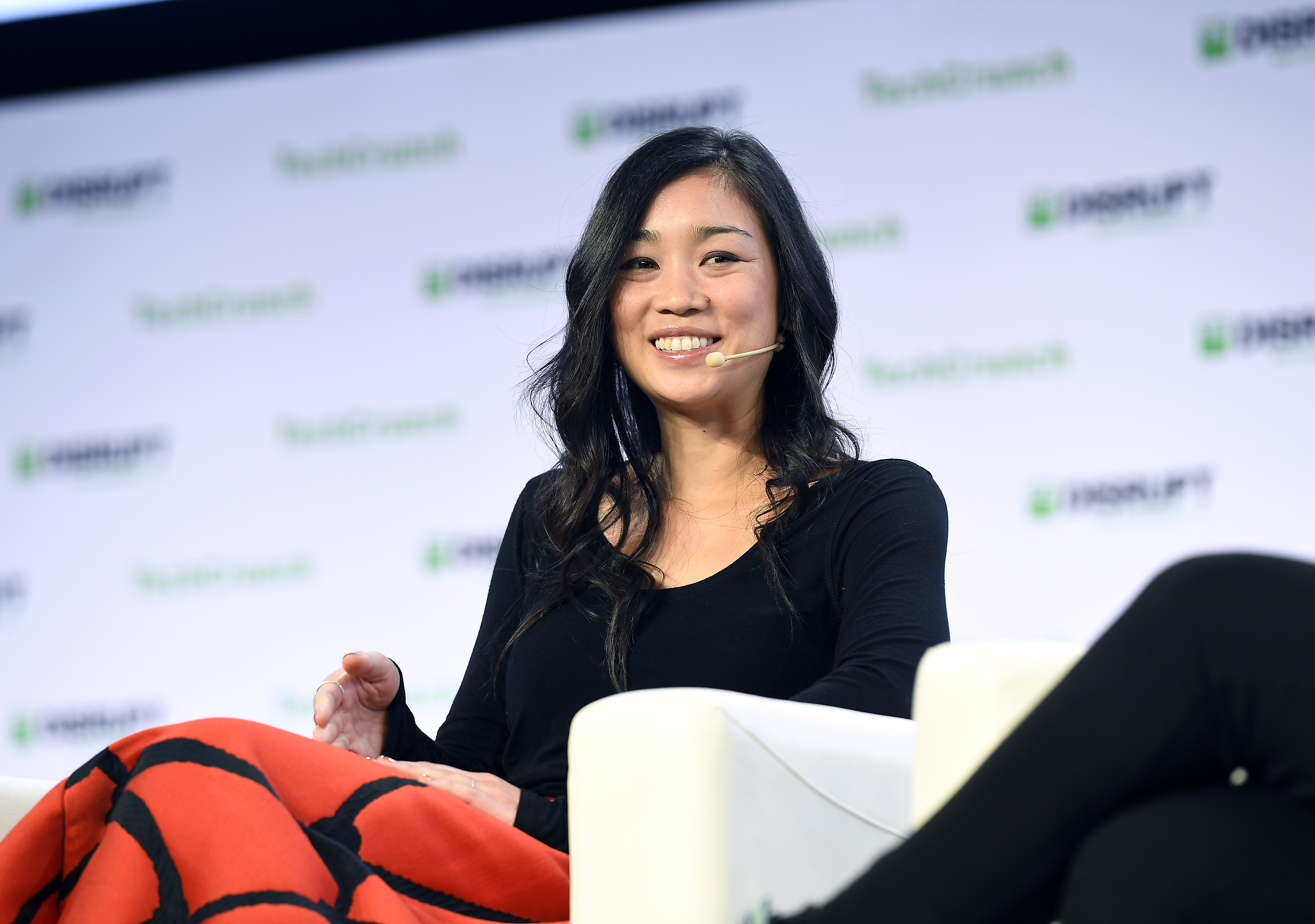 SAN FRANCISCO, CALIFORNIA - OCTOBER 04: Block Party Founder & CEO Tracy Chou speaks onstage during TechCrunch Disrupt San Francisco 2019 at Moscone Convention Center on October 04, 2019 in San Francisco, California. (Photo by Steve Jennings/Getty Images for TechCrunch)